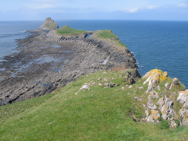 Worm's Head. Worm's Head is accessible via a causeway that is open about 2 1/2 hours either side of low tide. It's a National nature reserve owned jointly by the National Trust and the Countryside Council for Wales.